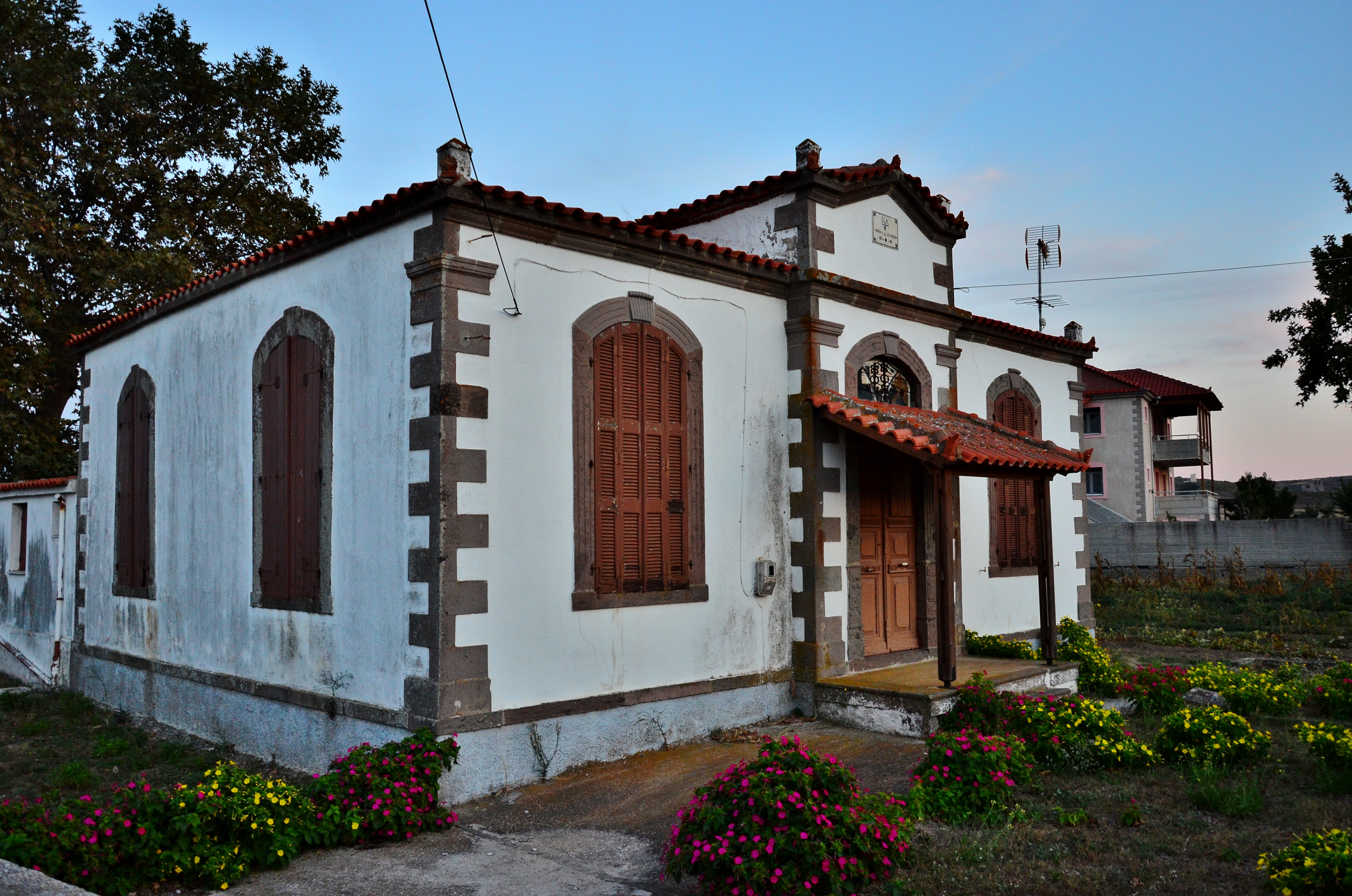 1931 building in Repanidi, Lemnos Greece